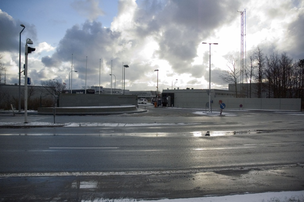 Naval base Frederikshavn, front gate